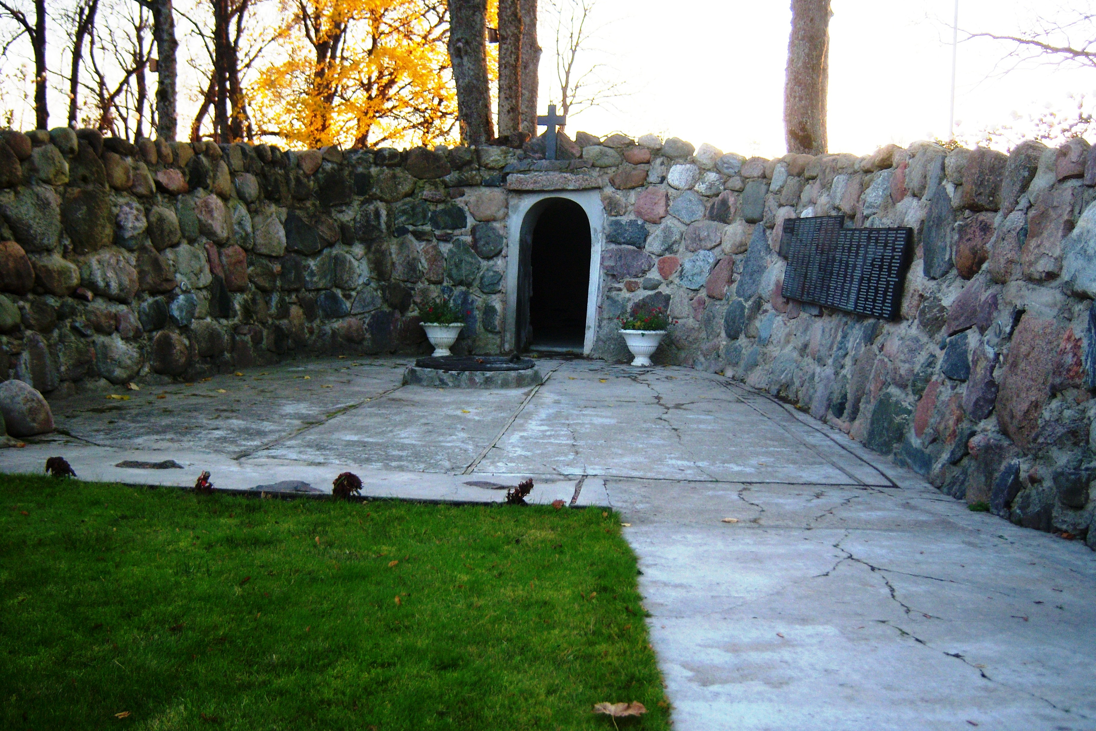 Lourdes in Seda, Lithuania